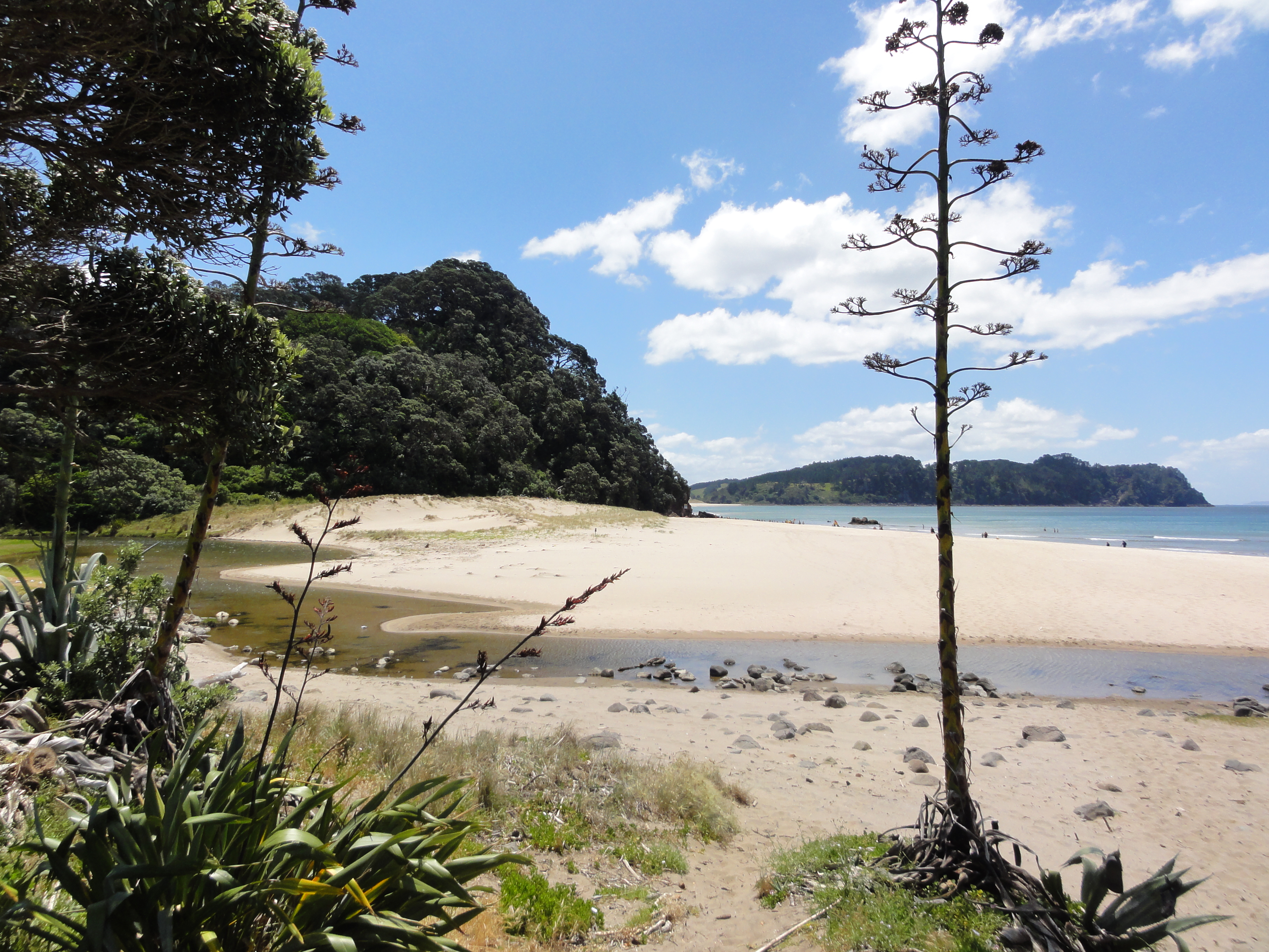 View to Hot Water Beach, New Zealand